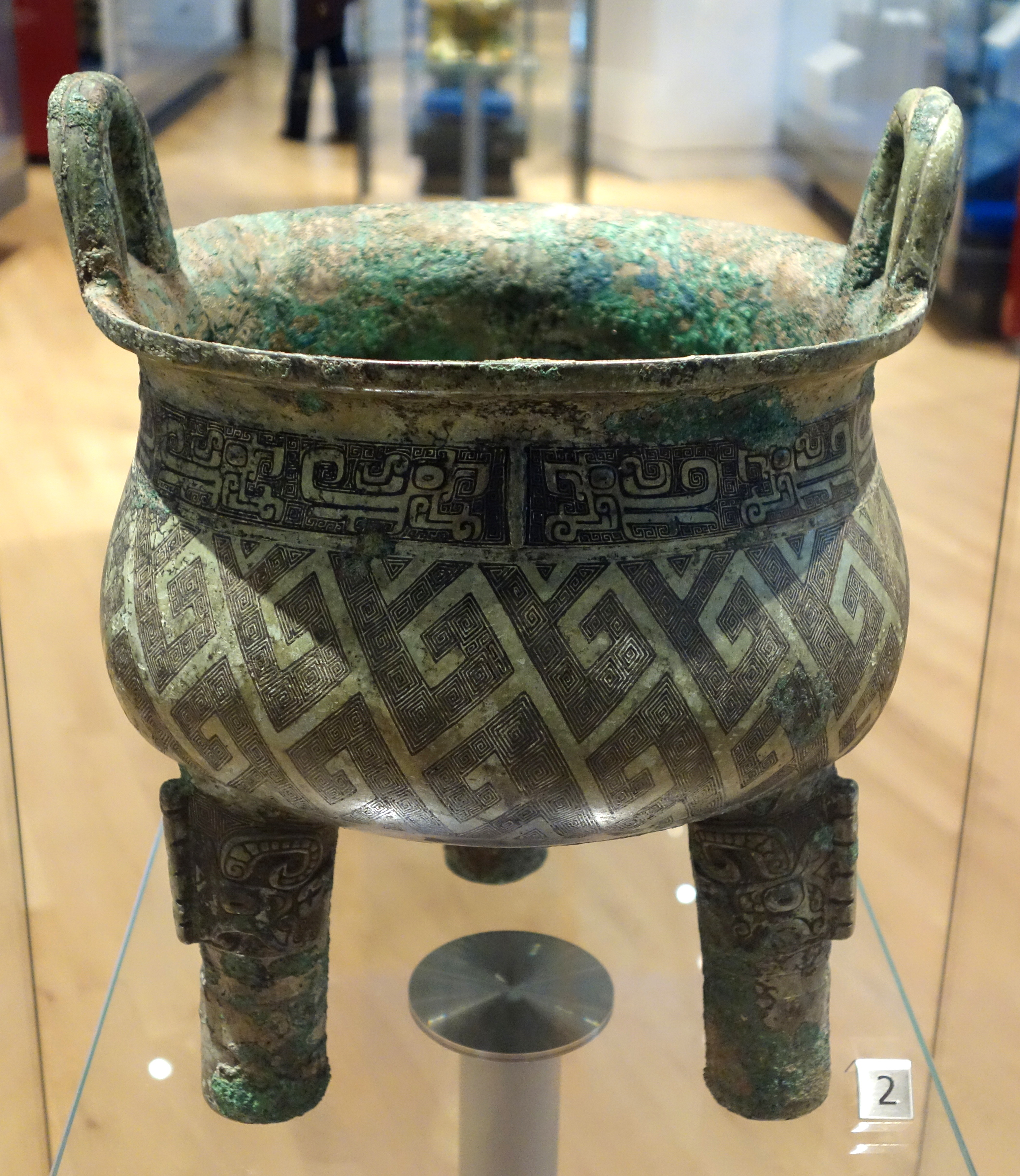 Exhibit in the Royal Ontario Museum, Toronto, Ontario, Canada. This work is old enough so that it is in the public domain.